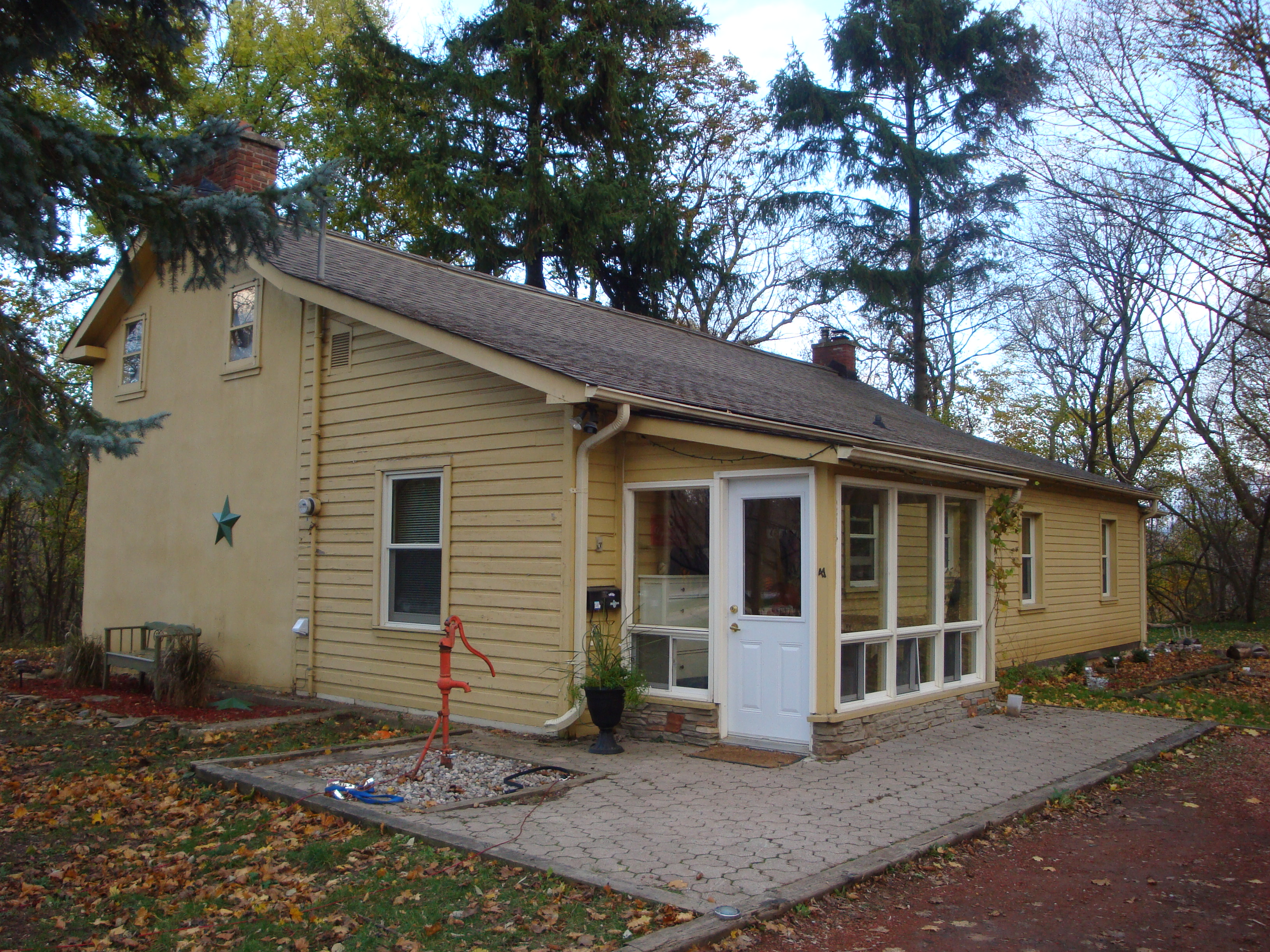 Timothy Street House, 41 Mill Street, Streetsville, Mississauga, Ontario, Canada. The The Timothy Street Home was built by Timothy Street, the founder of Streetsville in 1825. This photo is of a cultural heritage site in Canada, number 15499 in the Canadian Register of Historic Places.Date4 November 2012, 02:42:35SourceOwn workAuthorUtcursch Licensing[edit]